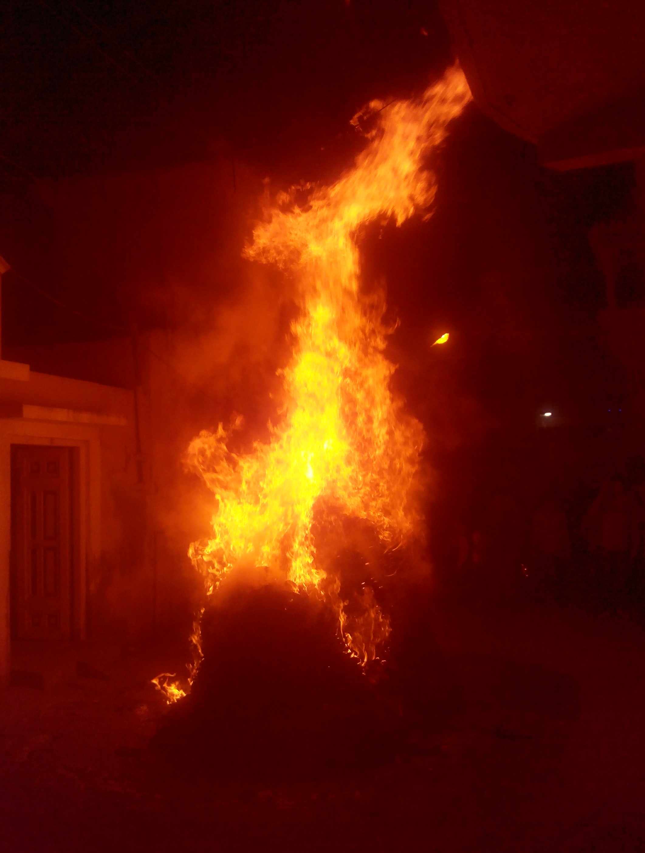 Holi festival bonfire at Mundra, Kutch, Gujarat, India